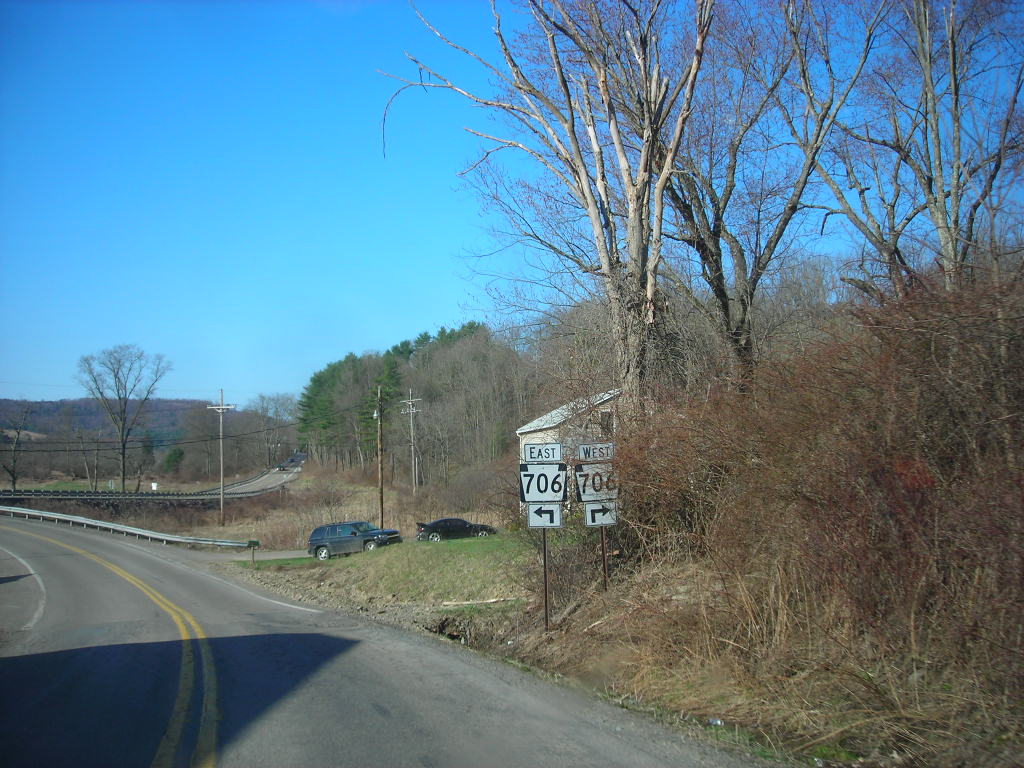 The southern terminus of Pennsylvania State Route 858 at State Route 706 in Rush Township, Susquehanna County.